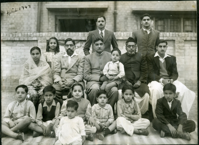 Abdul Hamid Khan Dasti sits center with his family. Front row seated on floor: Shauket Dasti, Abdul Quddus Dasti, Shahida Dasti, Nasira Dasti, Tariq Dasti, Kausara Dasti, Abdul Raouf Dasti Second row seated on chairs: Khalida Dasti, Abdul Aziz Dasti, Abdul Hamid Khan Dasti, Farooq Dasti, Abdul Majeed Dasti, Irshad Dasti Last row standing: Saeed Akbar Dasti, Iqbal Hameed Dasti